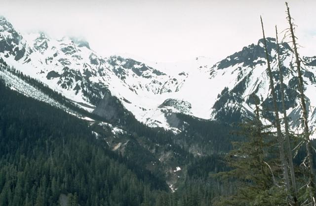 The inconspicuous ice-and-debris covered Bridge River Vent on the northeastern flank of Plinth Peak. It is near the middle of the photo immediately above the "inverted-V-shaped" forested valley fill.